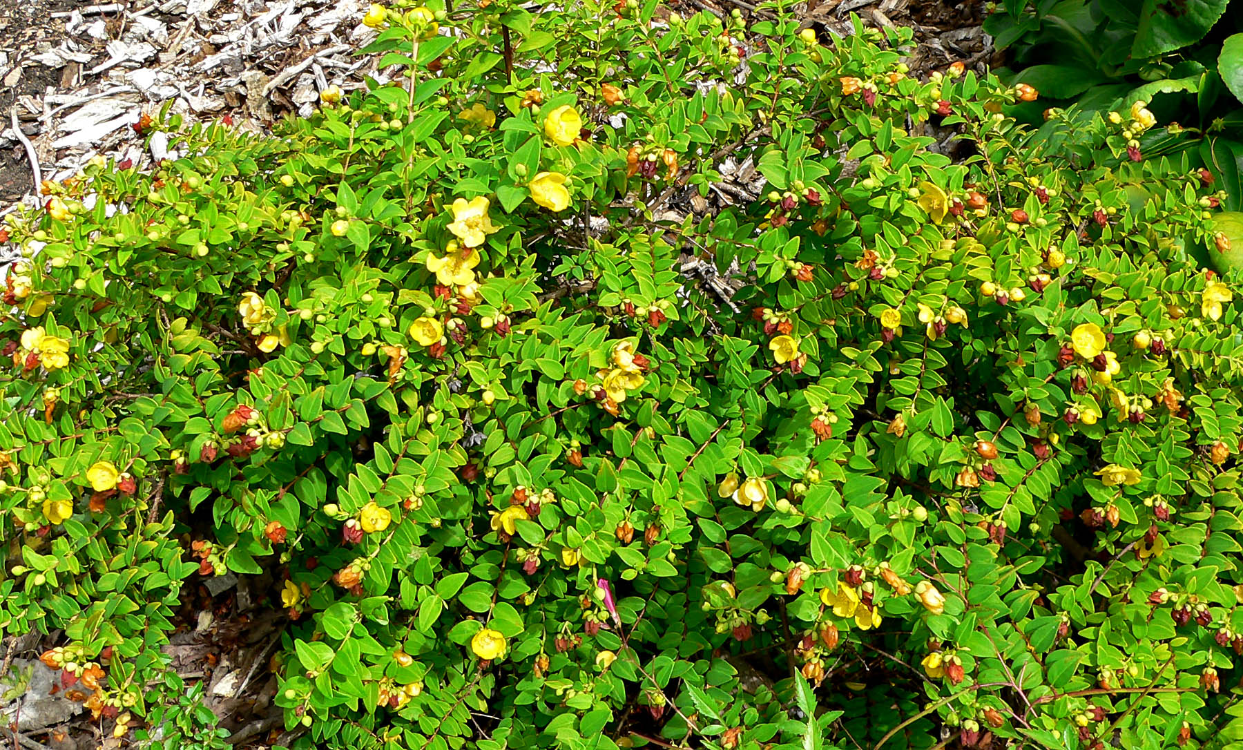 Photo of Hypericum uralum at the University of California Botanical Garden